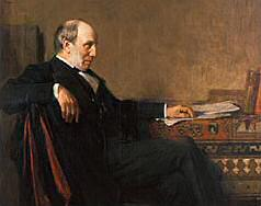 Formal portrait painting by George Reid of professor Sir John Struthers, 1891.